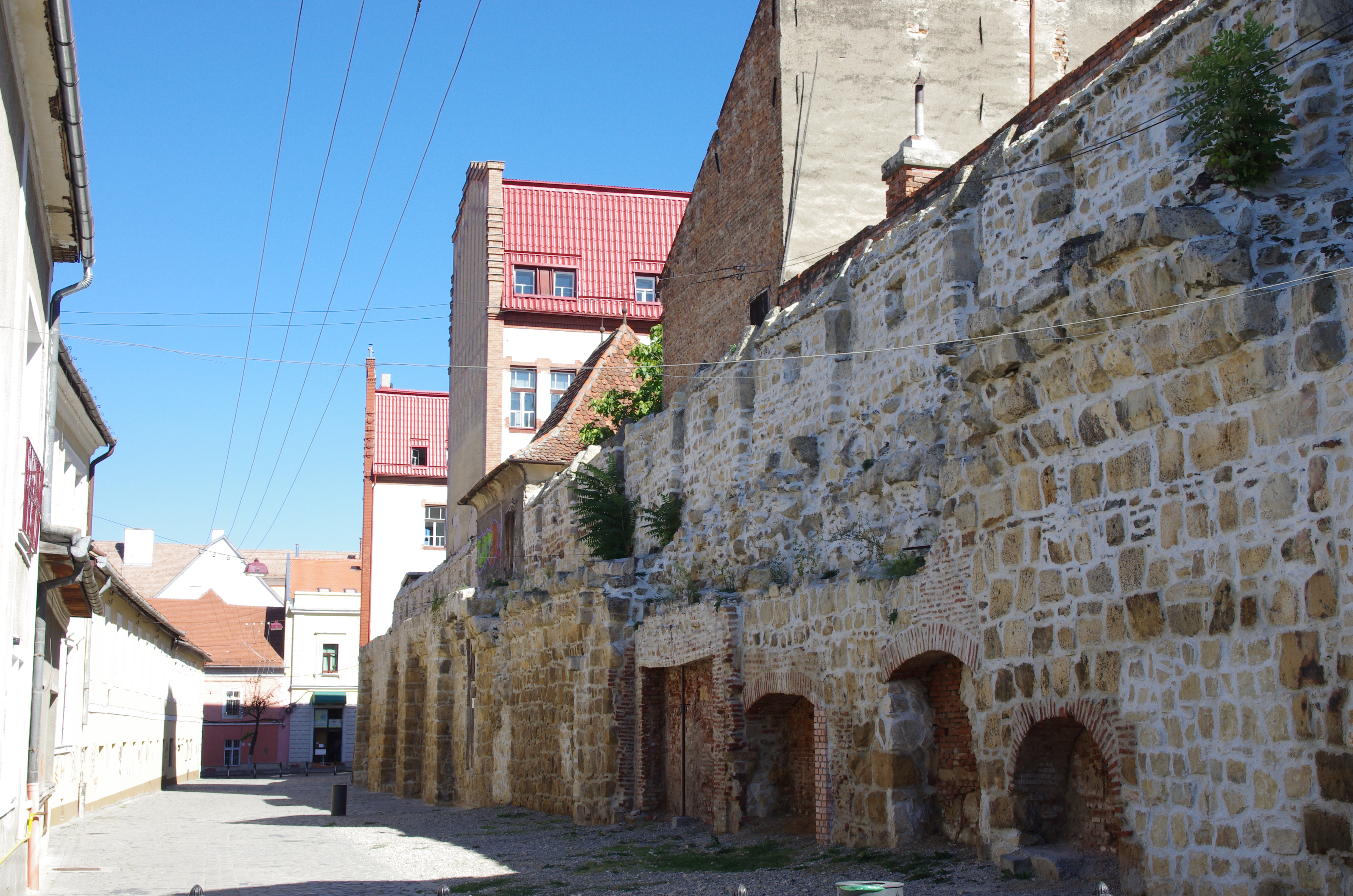 Fragments of Cluj City Walls from Potaissa Street (Cluj Napoca, Romania)